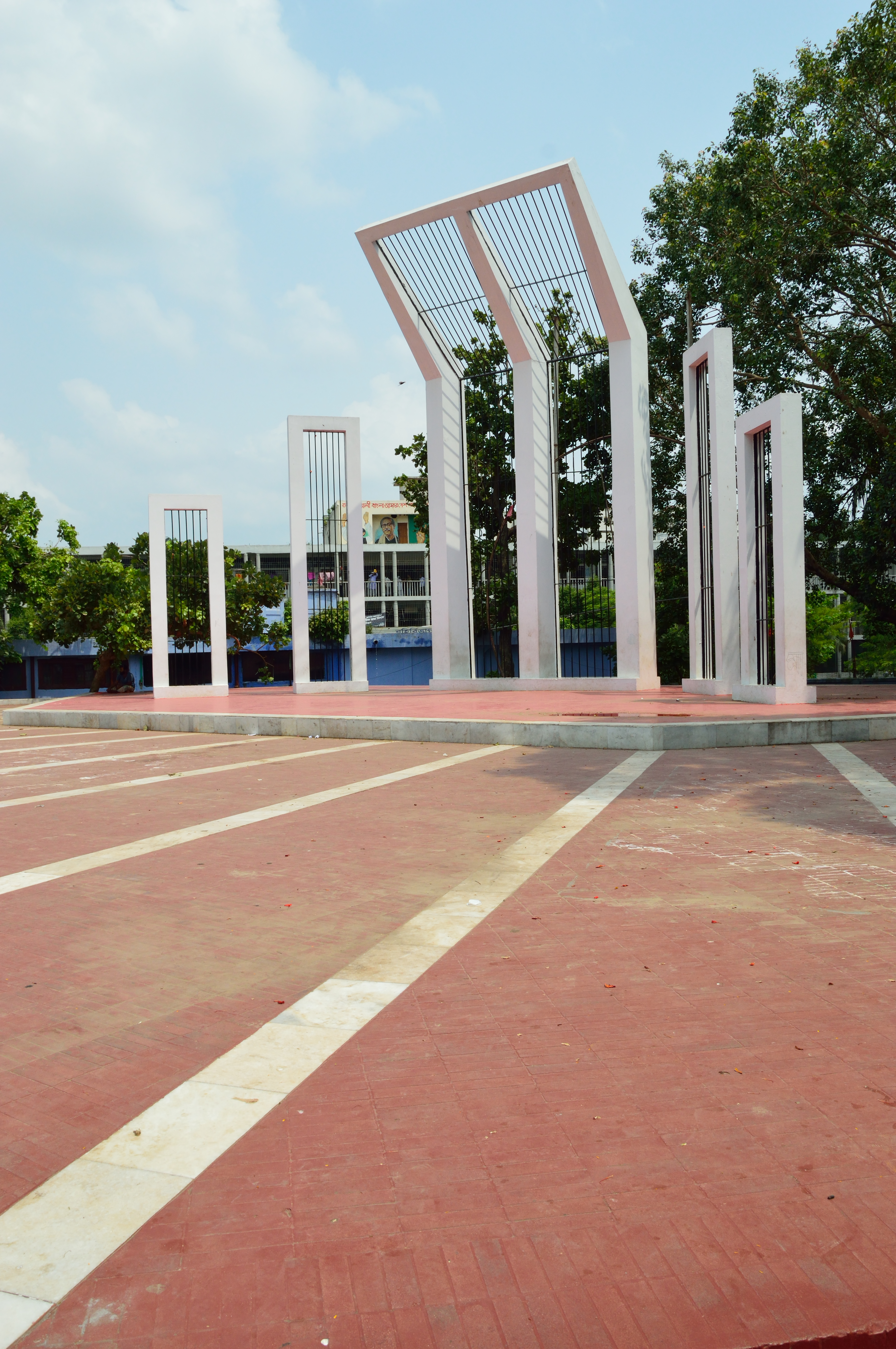 Photographed in Dhaka, Bangladesh.